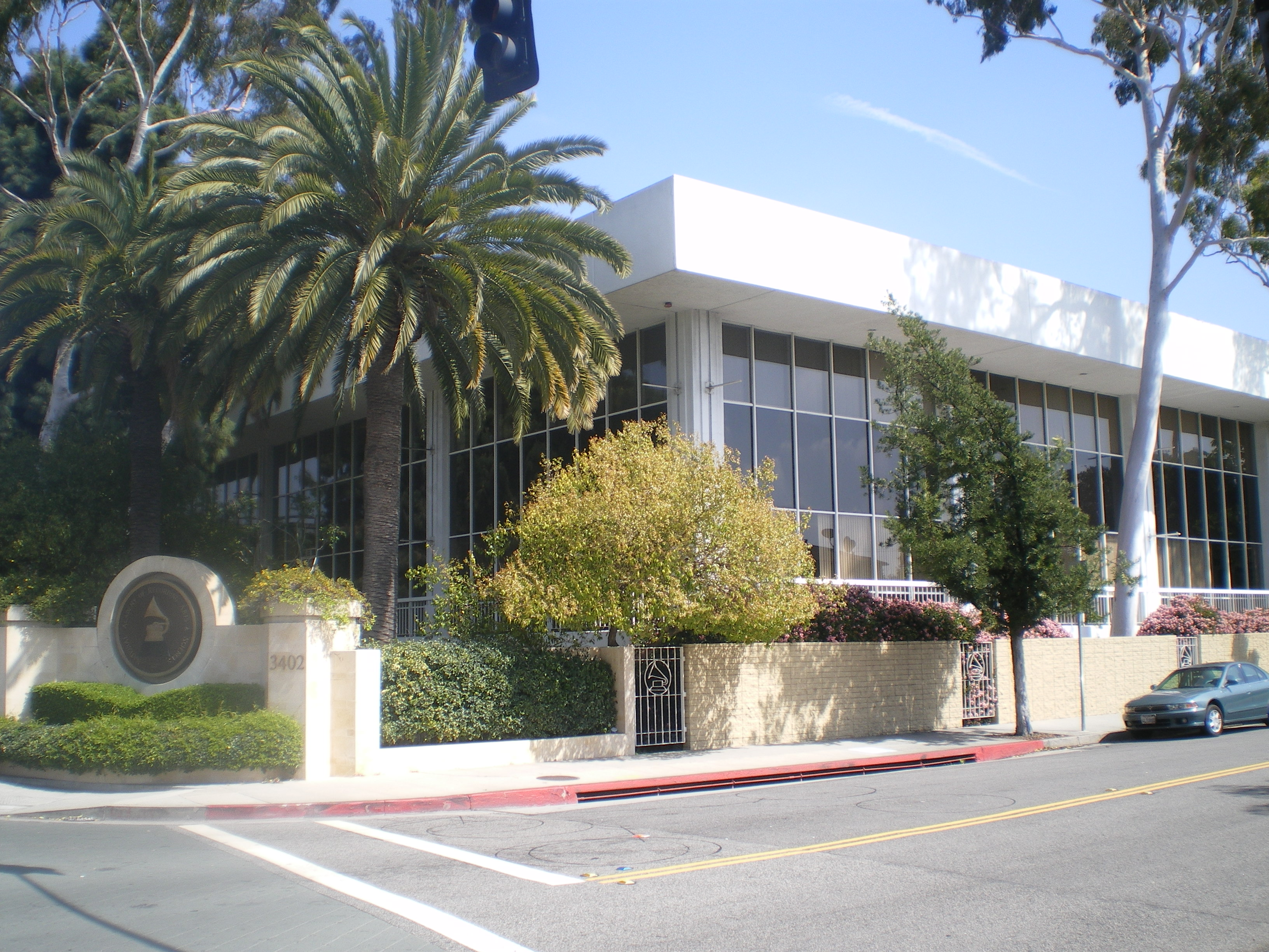 National Academy of Recording Arts & Sciences, Pico & 34th, Santa Monica Pico & 34th, Los Angeles